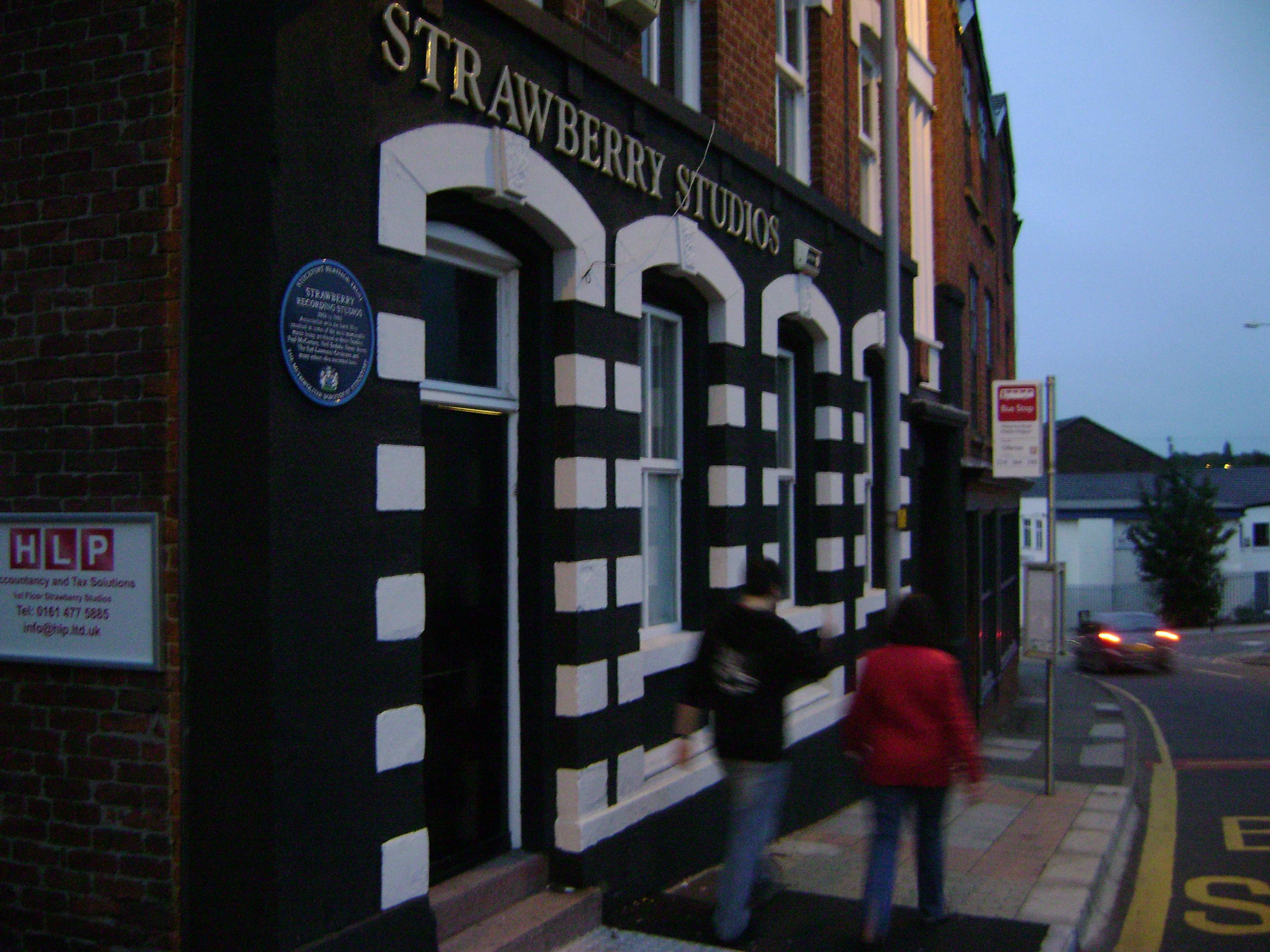 The former Strawberry Studios building in Stockport.